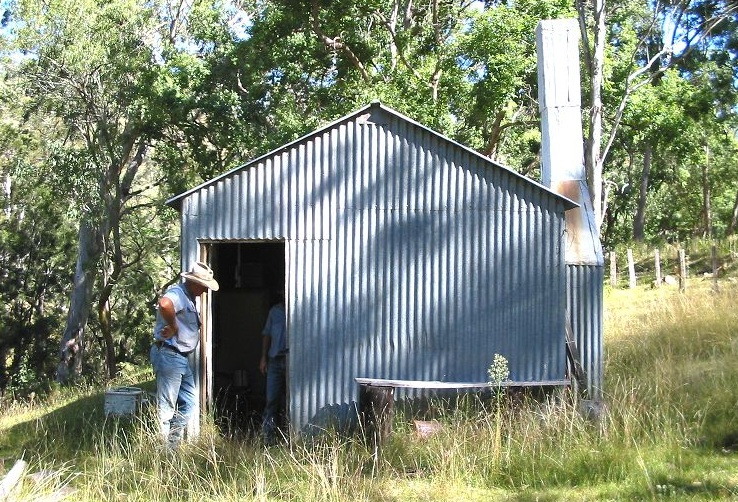 Green Gully Hut, Oxley Wild Rivers N P that was used for mustering camps.